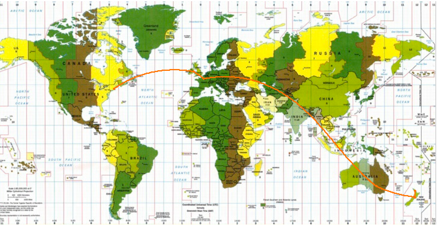 A visual tracerout using the software WhatRoute Map is courtesy of CIA